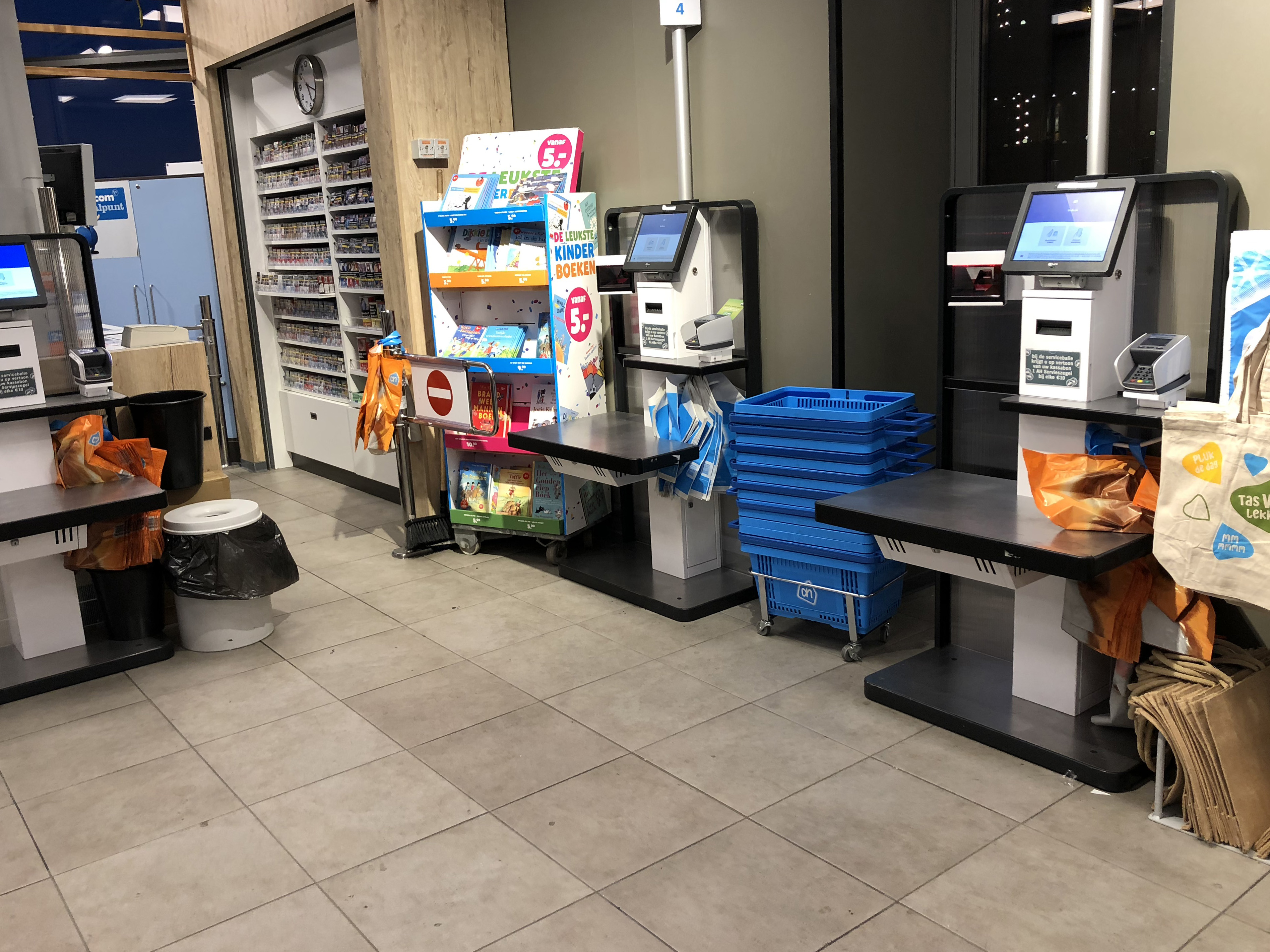 A self-checkout at an Albert Heijn supermarket at Oosterdokskade in Amsterdam, the Netherlands.